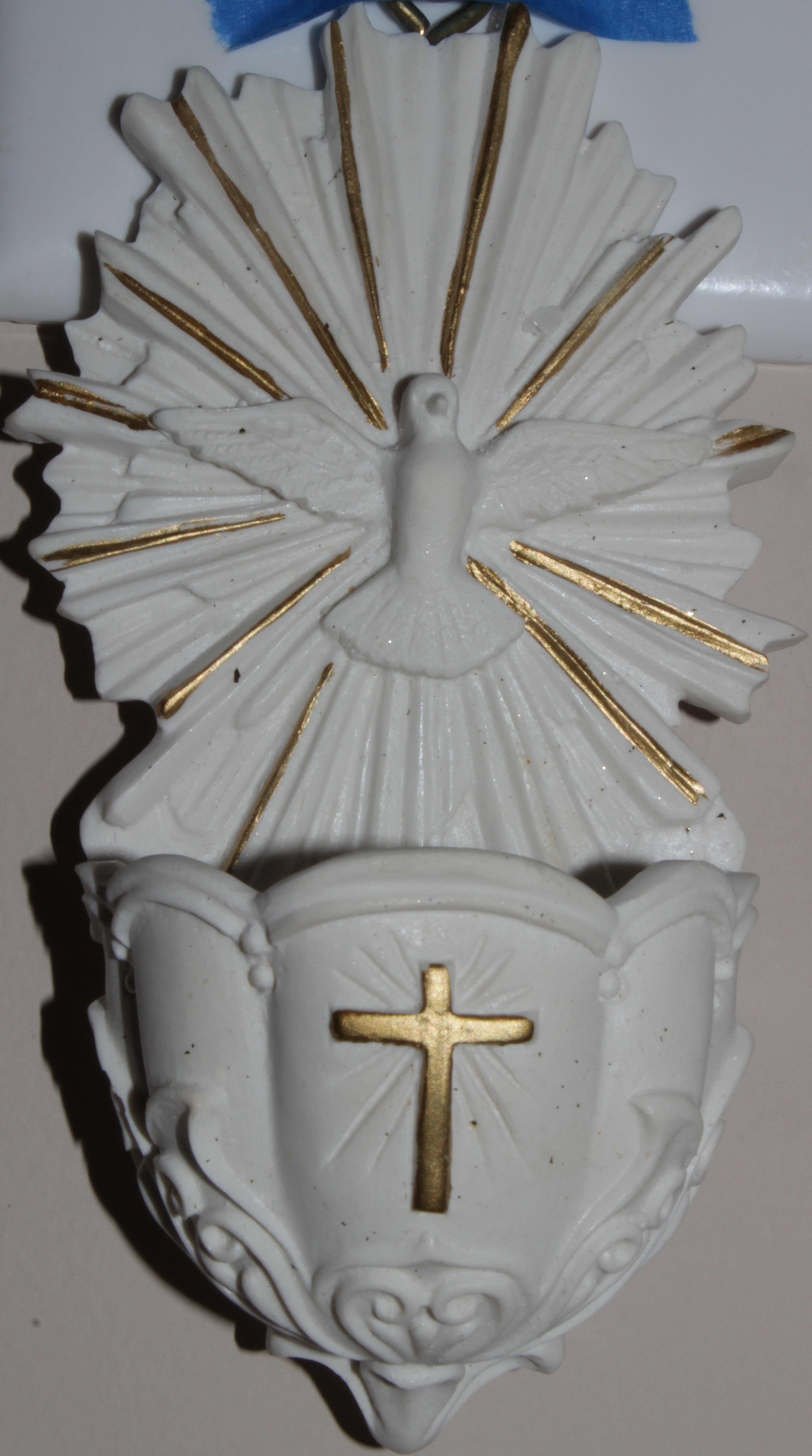 A personal Holy Spirit-themed Holy Water font used by the door of the author's bedroom for blessing when entering or leaving.